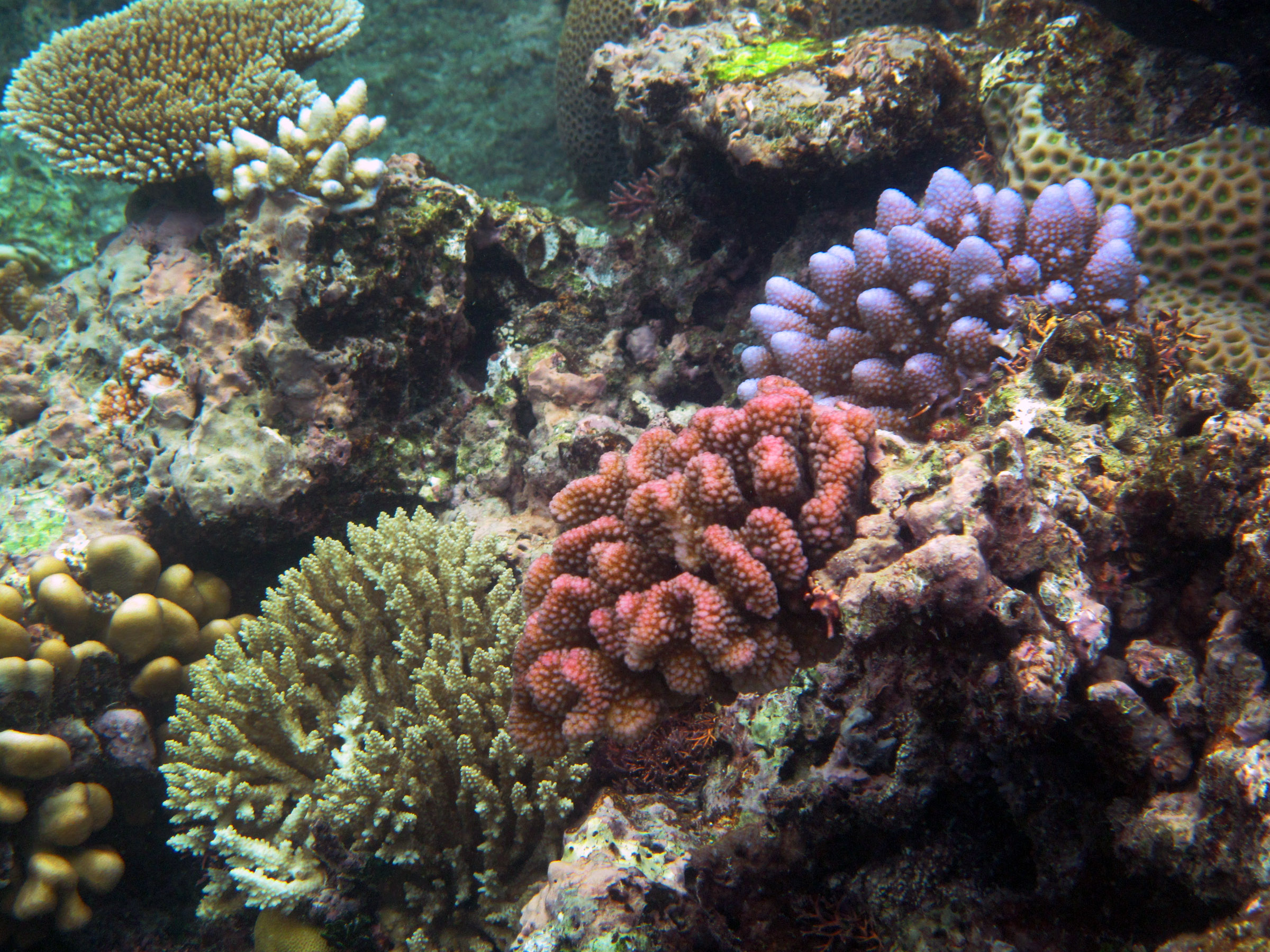 A beautiful array of colors and varieties of coral in the Great Barrier Reef...